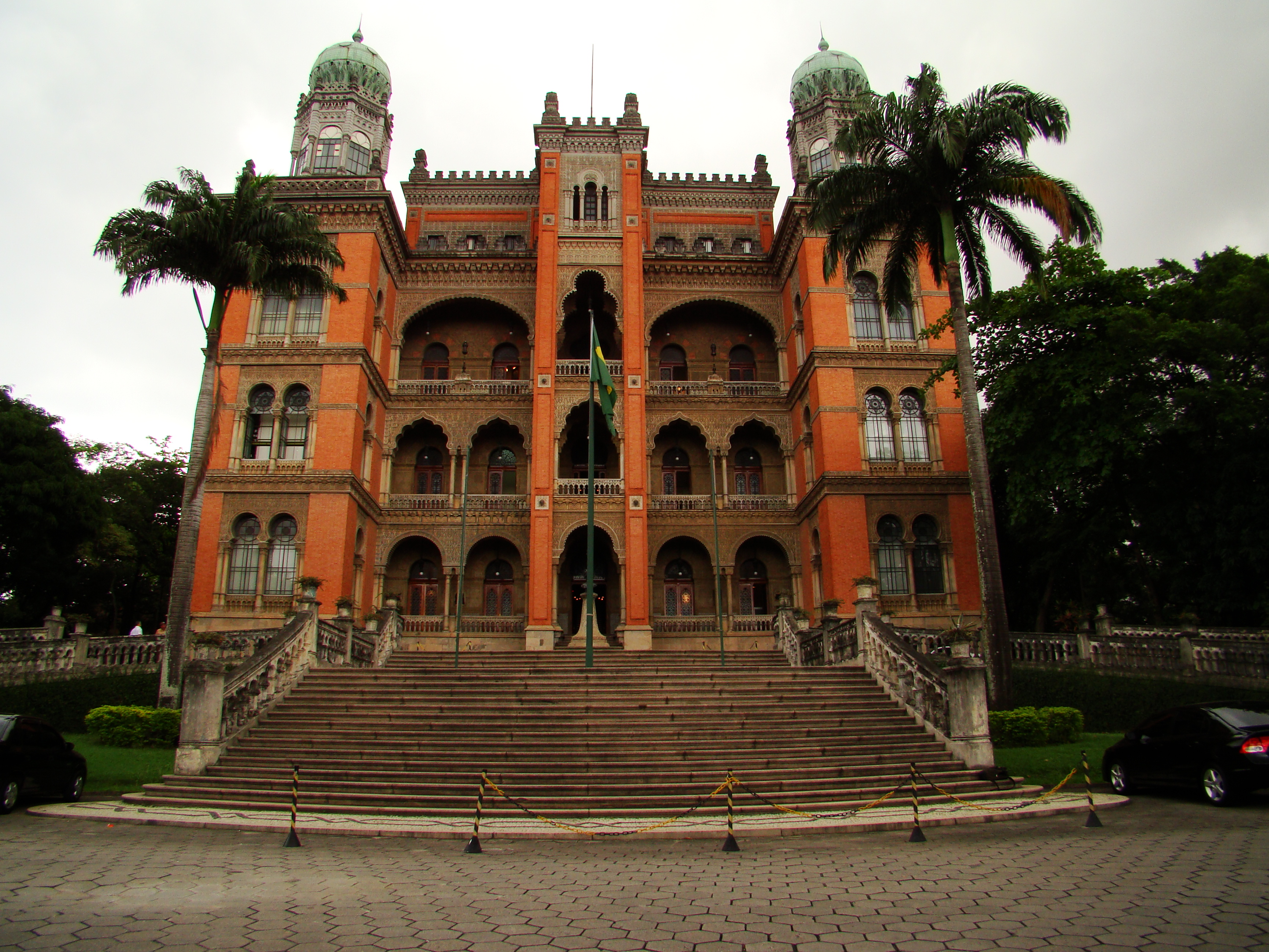 Oswaldo Cruz Foundation, the Moorish Pavilion one of the three historical buildings of the old Federal Serotherapy Institute. - Av. Brasil, 4365 Manguinhos, Rio de Janeiro, Brasil